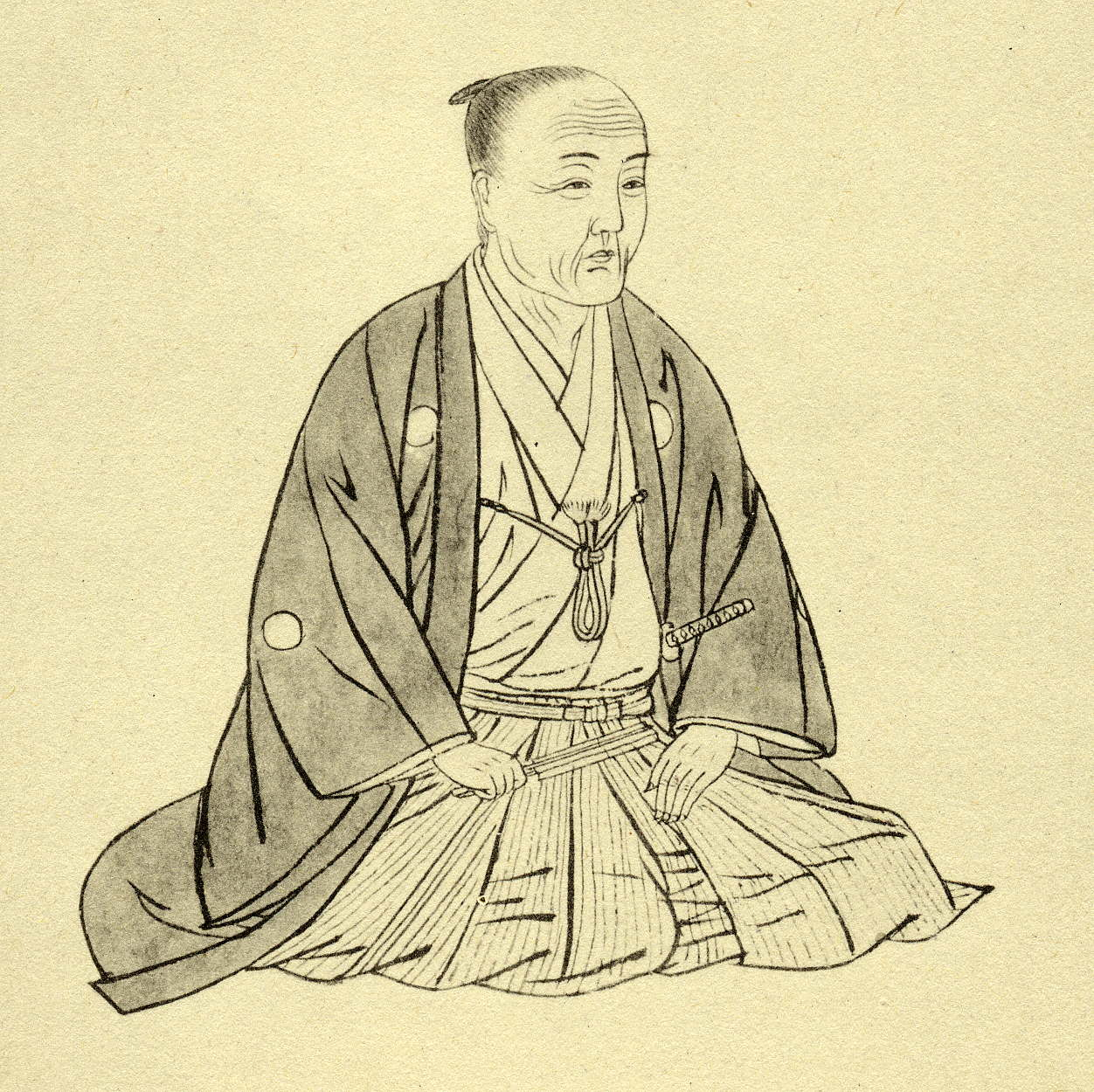 Ban Nobutomo (伴信友) was a japanese philologist and Kokugaku scholar in Edo period.